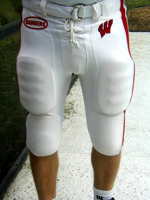 Football pants with thigh and knee pads.